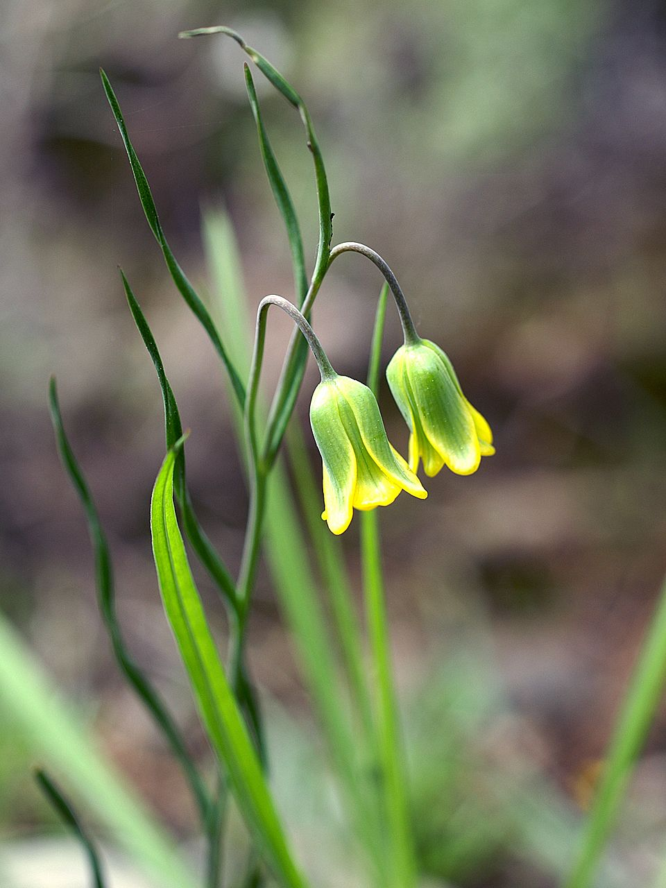 Fritillaria rhodia A. Hansen (1969) Description:Fritillaria rhodia - flowersSources:RhodesAuthor:License:GFDL